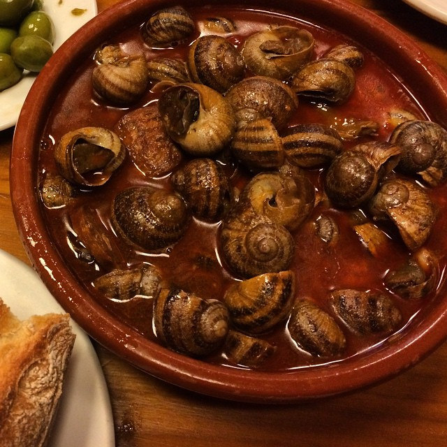 Visited Los Caracoles near El Rastro again this time in Madrid for the delicious snails cooked with chorizo.